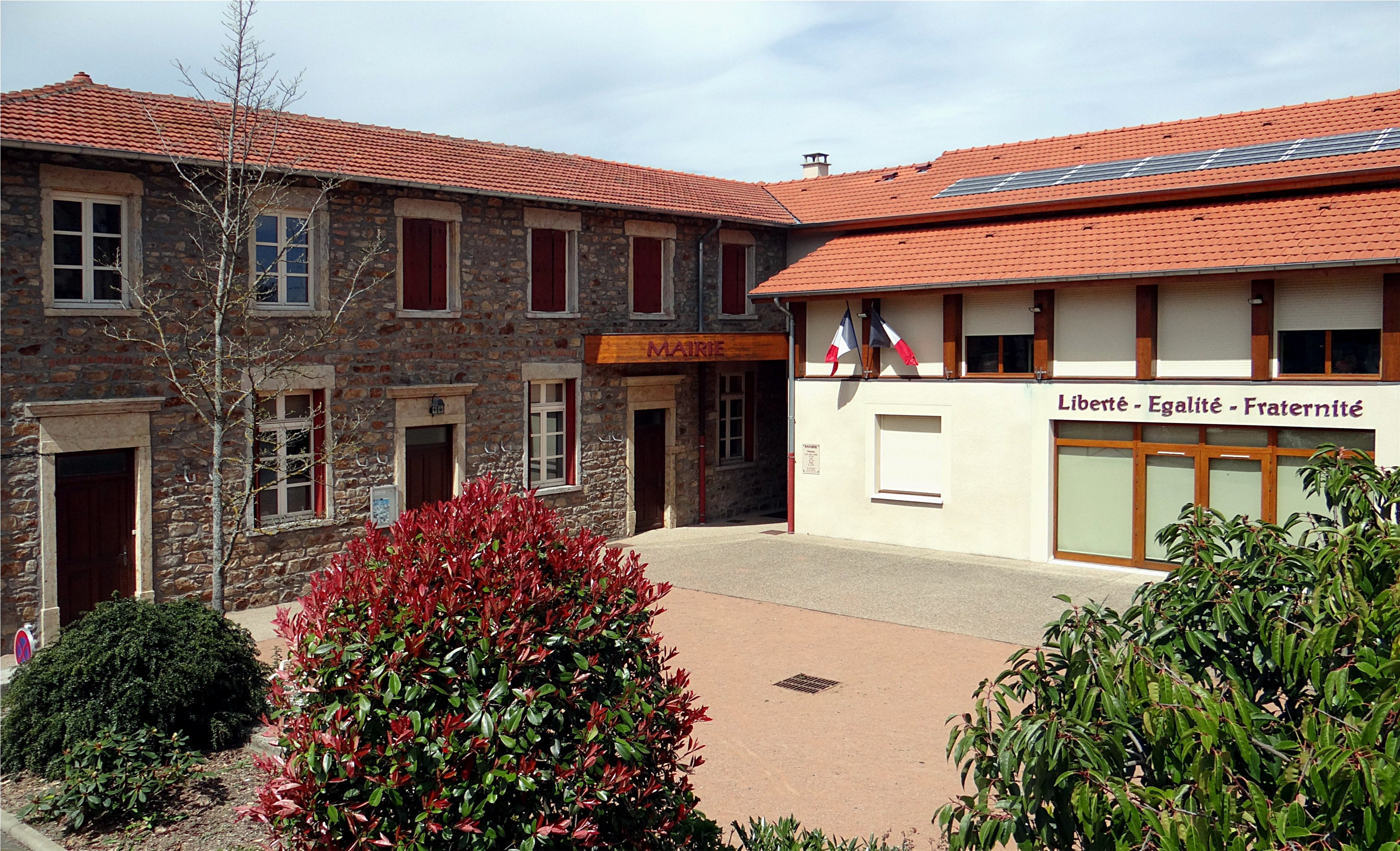 Mayor Aveize, Rhône, France.